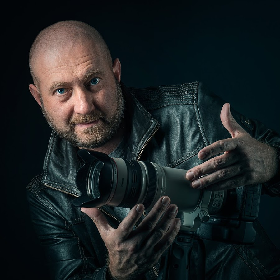 Pavel Kaplun - Photographer, Trainer, Digital Artist, Author